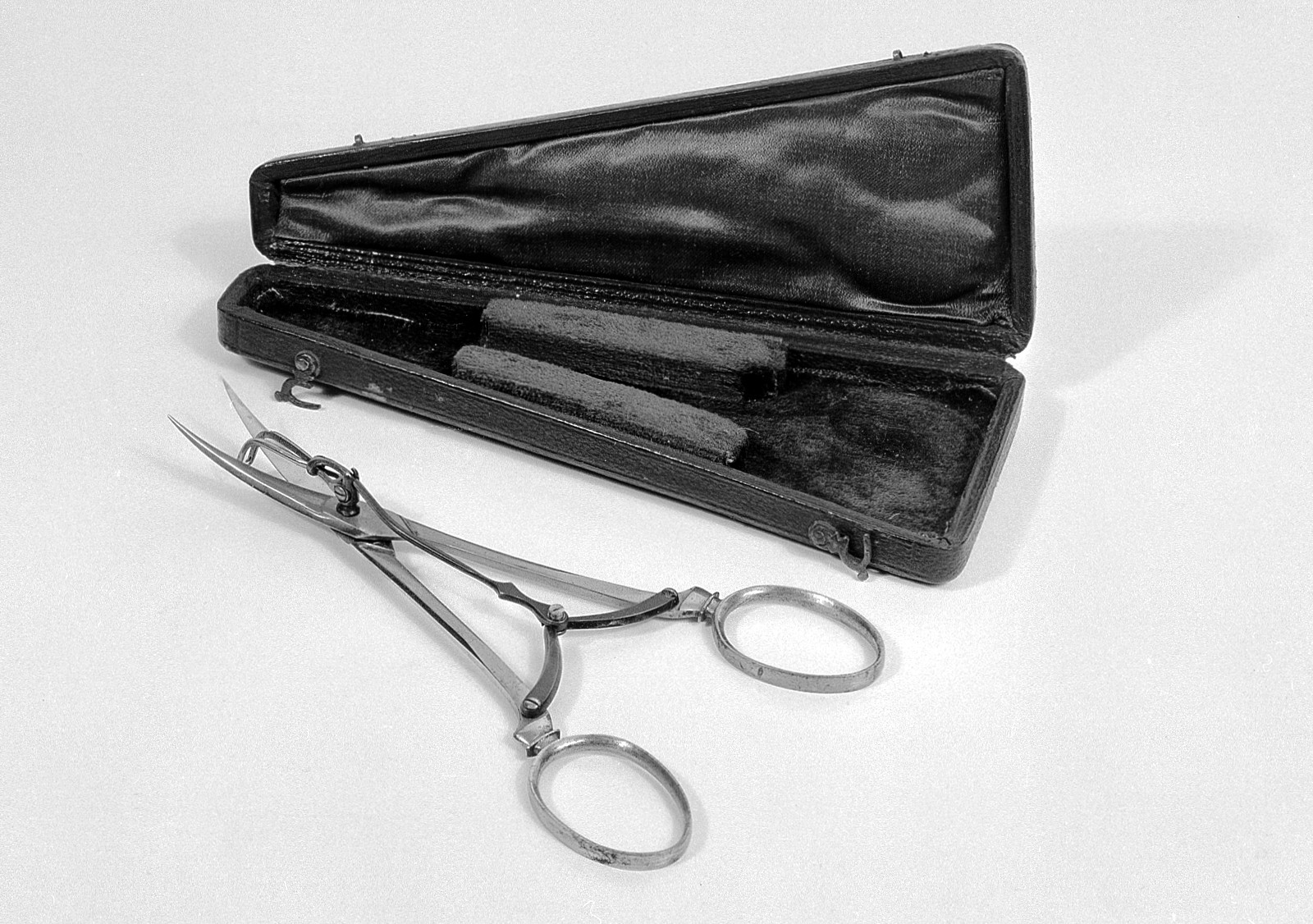 Skin-grafting scissors Wellcome Images Keywords: Scissors; skin, transplantation, instruments